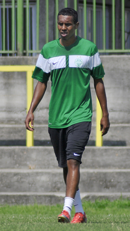 Liban Abdi association football player.